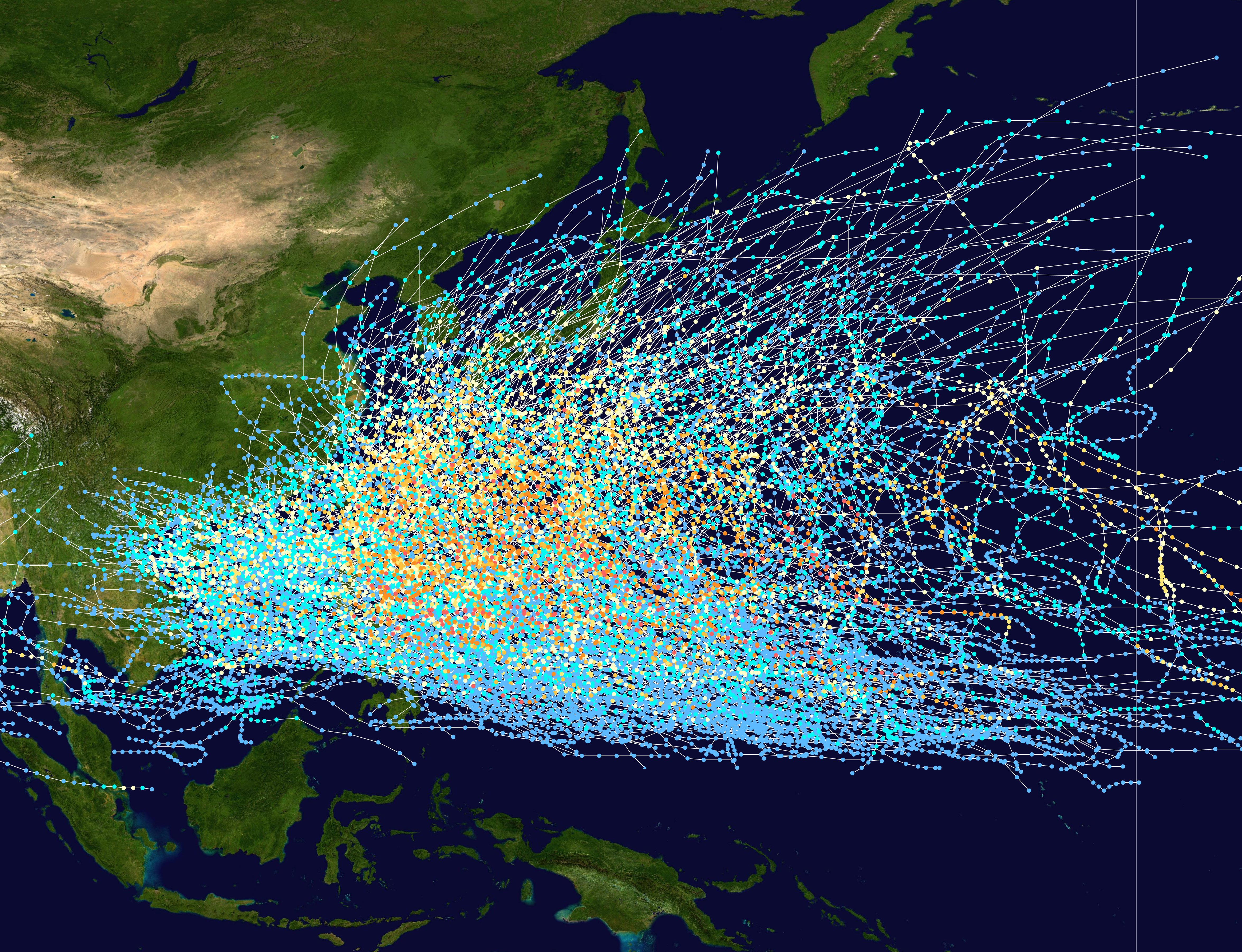 This trackmap shows the tracks of all tropical cyclones in the Northwest Pacific Ocean from 1980 to 2005. The International Date Line is marked on the map, this is the eastern boundary of the basin.. The points show the location of each storm at 6-hour intervals. The colour represents the storm's maximum sustained wind speeds as classified in the Saffir-Simpson Hurricane Scale (see below), and the shape of the data points represent the nature of the storm. Saffir–Simpson scale Tropical depression≤38 mph≤62 km/h Category 3111–129 mph178–208 km/h Tropical storm39–73 mph63–118 km/h Category 4130–156 mph209–251 km/h Category 174–95 mph119–153 km/h Category 5≥157 mph≥252 km/h Category 296–110 mph154–177 km/h Unknown Storm type Tropical cyclone Subtropical cyclone Extratropical cyclone / Remnant low / Tropical disturbance / Monsoon depression